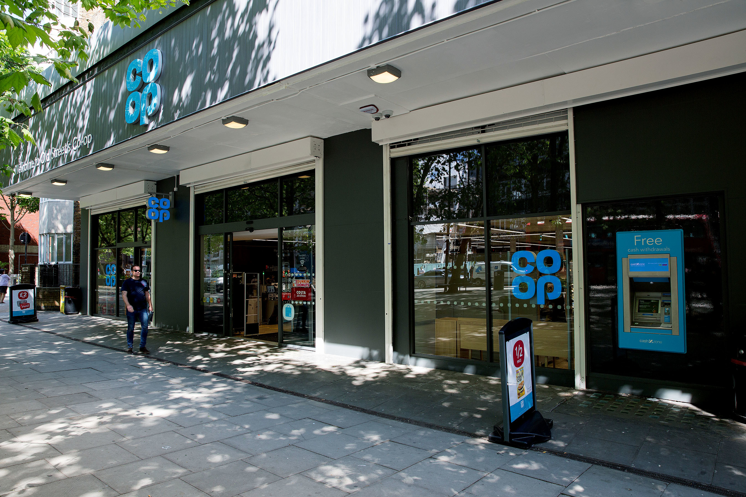 Co-op Old Street, Shoerditch, rebranding launch